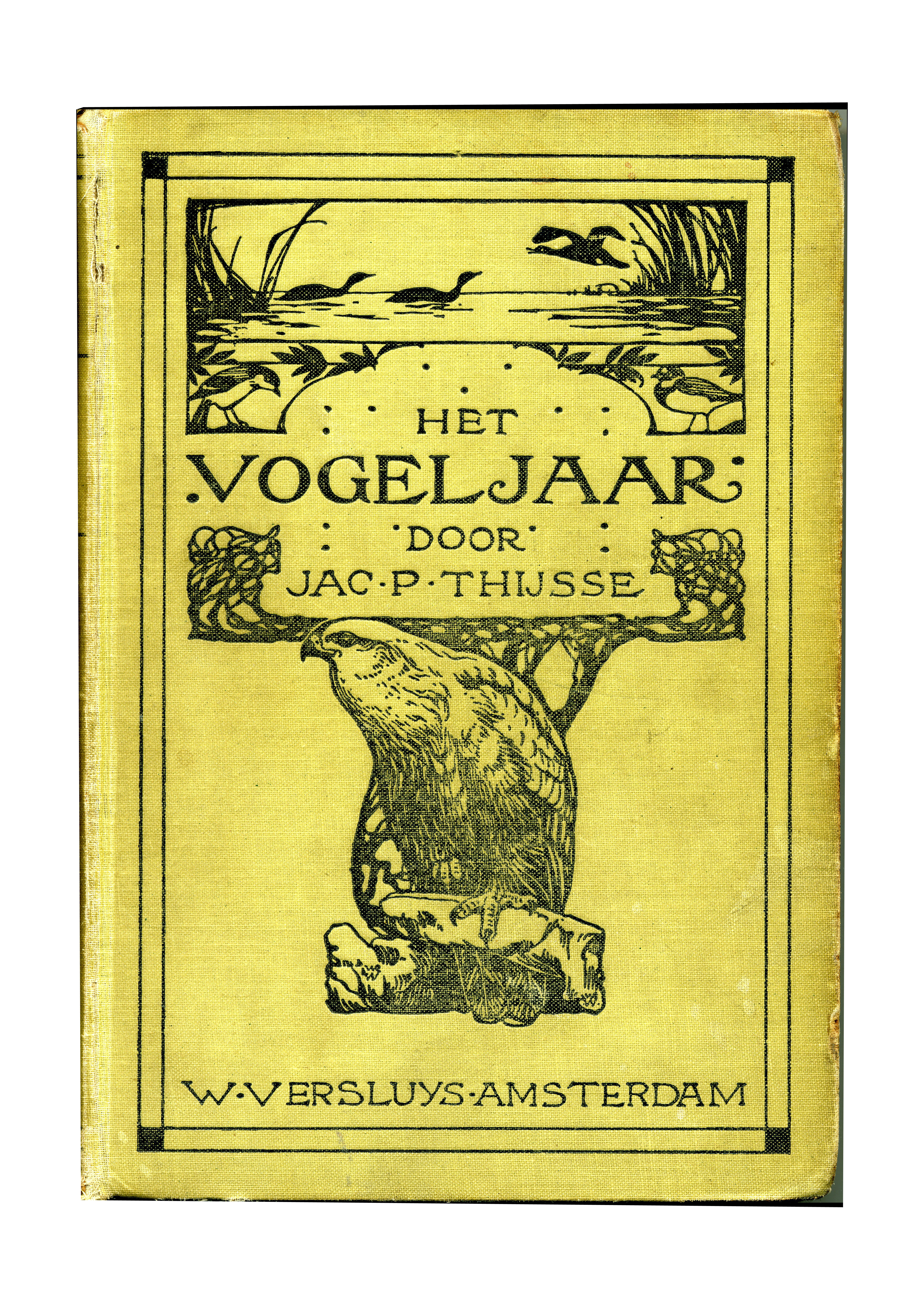 Book cover